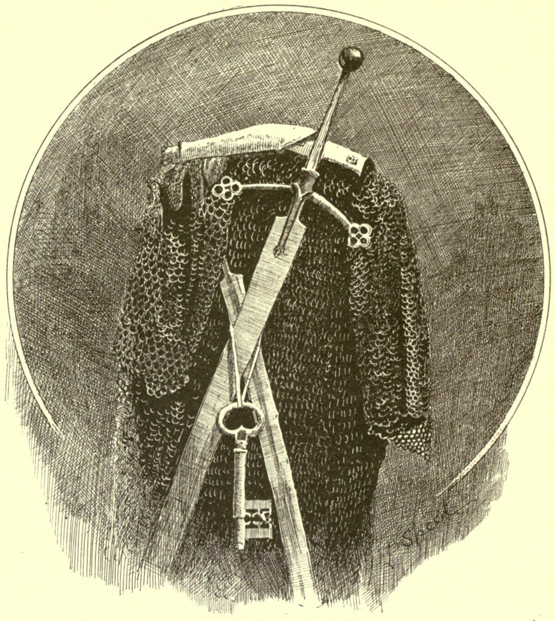 A scanned image from page 196, of the book Footsteps of Dr. Johnson. The illustration is an engraving. It pictures a claymore and armour, relics of the Macleods of Dunvegan.